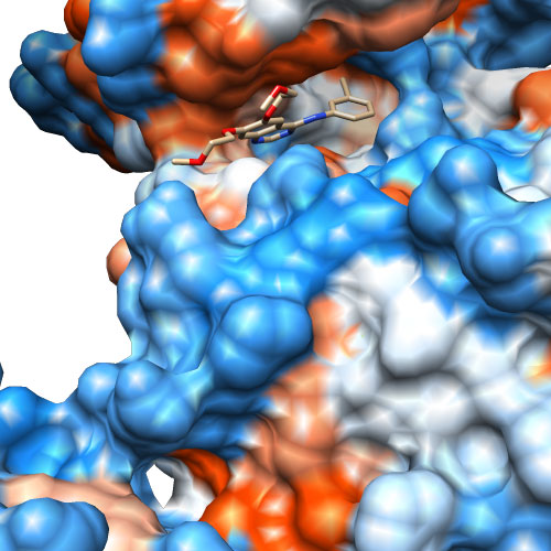 Structure of erlotinib bound to ErbB1 at 2.6A based on PDB 1M17. The image was rendered using Chimera; surface colour indicates hydrophobicity.